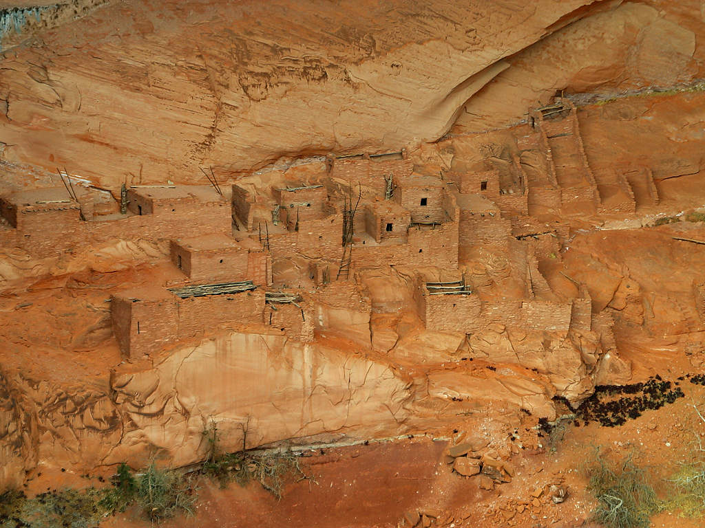 Betatakin Cliff Dwellings at Navajo National Monument in Arizona, United States